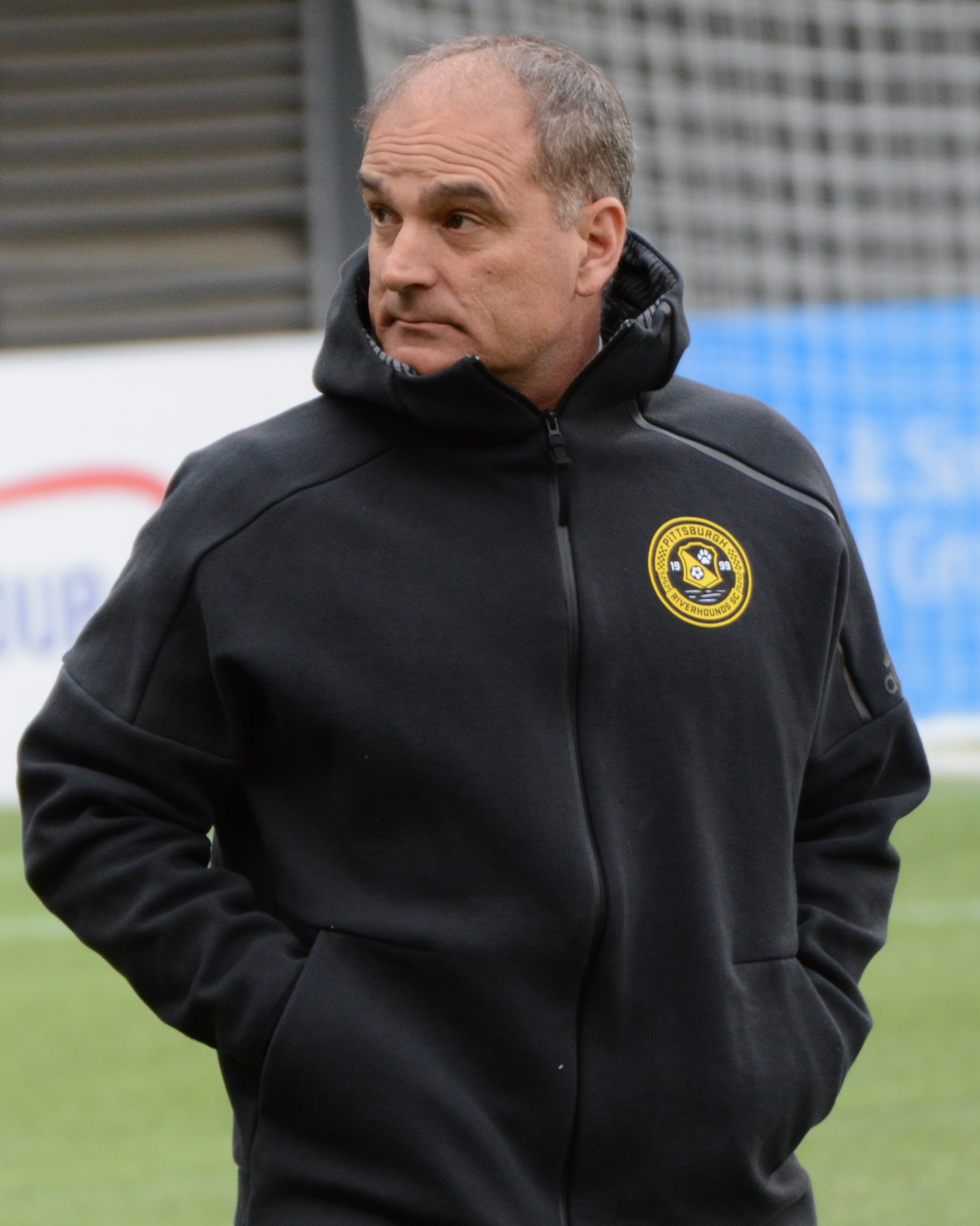 Pittsburgh Riverhounds SC assistant coach Mark Pulisic walking towards his team's bench, shortly before the start of a USL regular season match between FC Cincinnati and Pittsburgh Riverhounds at Nippert Stadium in Cincinnati, USA on April 21, 2018.